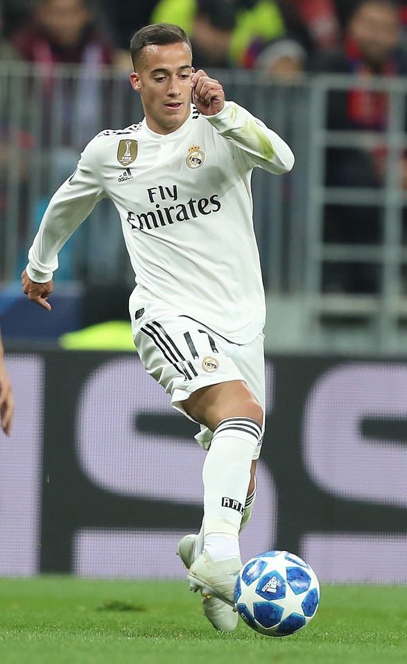 Lucas Vázquez